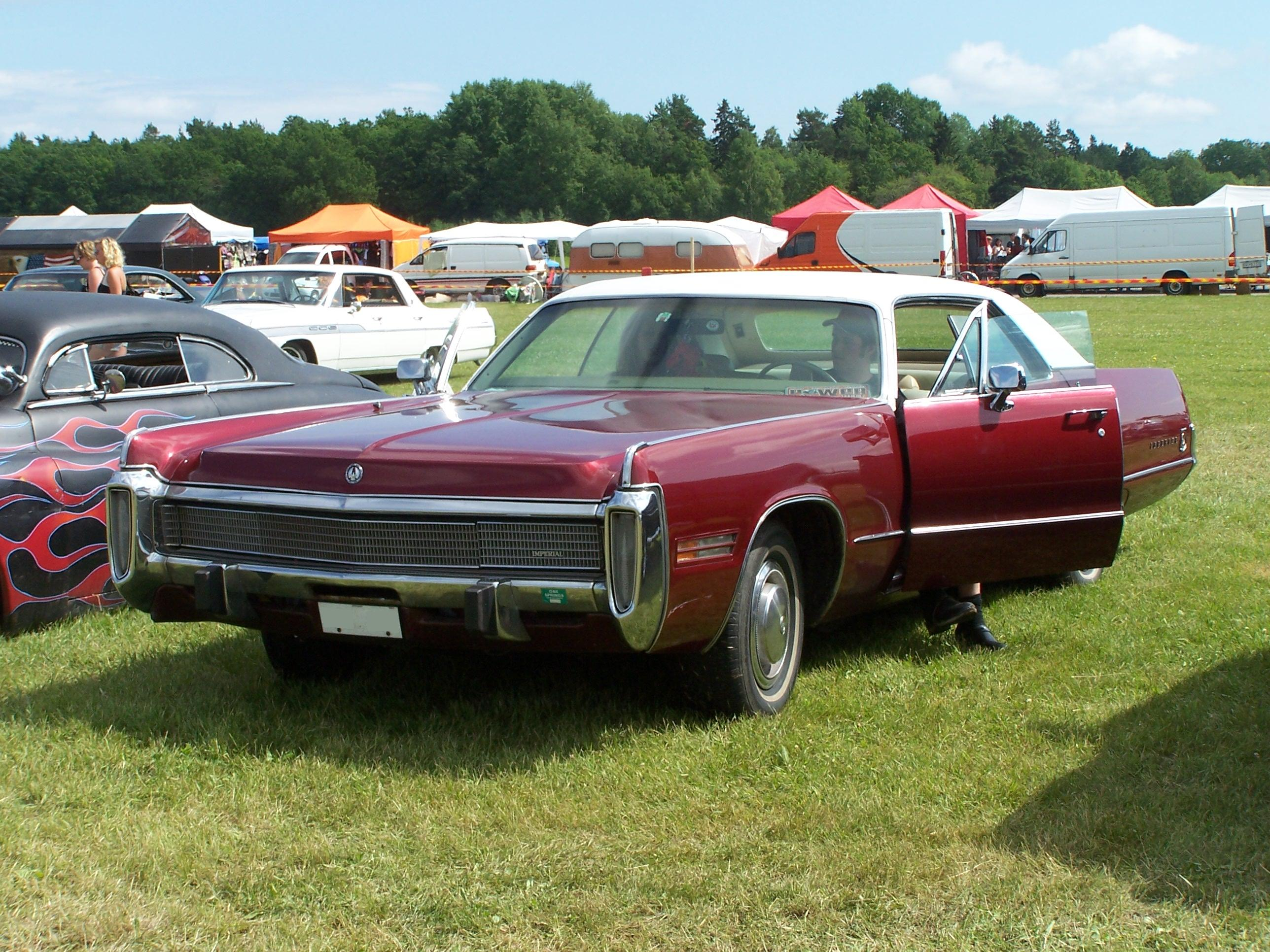 1973 Imperial Le Baron 4-door hardtop limousine at Power Big Meet 2009, Västerås, Sweden.